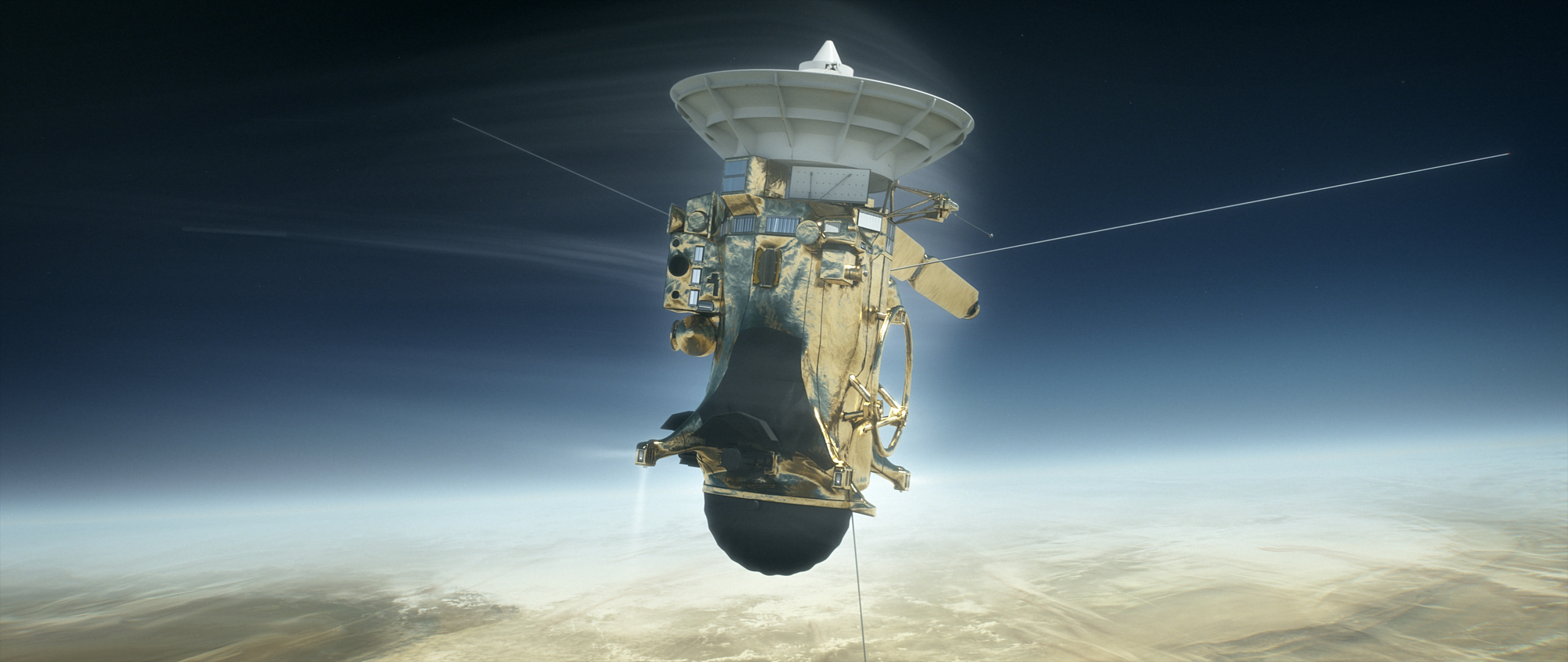 As depicted in this illustration, Cassini will plunge into Saturn's atmosphere on Sept. 15, 2017. Using its attitude control thrusters, the spacecraft will work to keep its antenna pointed at Earth while it sends its final data, including the composition of Saturn's upper atmosphere. The atmospheric torque will quickly become stronger than what the thrusters can compensate for, and after that point, Cassini will begin to tumble. When this happens, its radio connection to Earth will be severed, ending the mission. Following loss of signal, the spacecraft will burn up like a meteor in Saturn's upper atmosphere. The Cassini mission is a cooperative project of NASA, ESA (the European Space Agency) and the Italian Space Agency. The Jet Propulsion Laboratory, a division of the California Institute of Technology in Pasadena, manages the mission for NASA's Science Mission Directorate, Washington. For more information about the Cassini-Huygens mission visit and